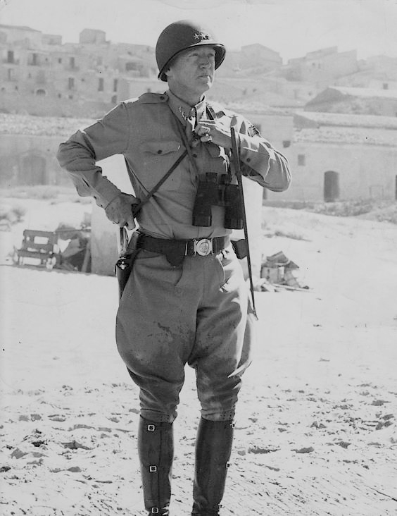 General George S. Patton Jr. (1885-1945), U.S. Army General, with ivory handled pistols visible. Sicily, Italy